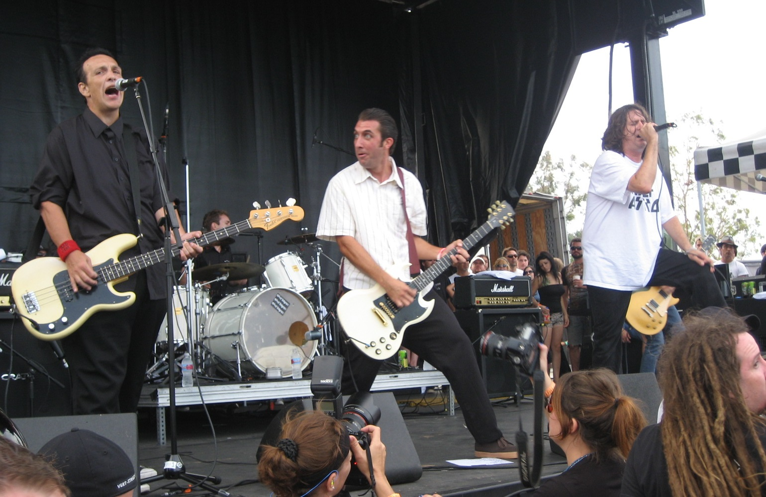 Punk rock band the Adolescents performing on Warped Tour, August 25, 2007 in Carson, California. Left to right: Bassist Steve Soto, drummer Derek O'Brien, guitarist Matt Beld, and singer Tony Reflex.